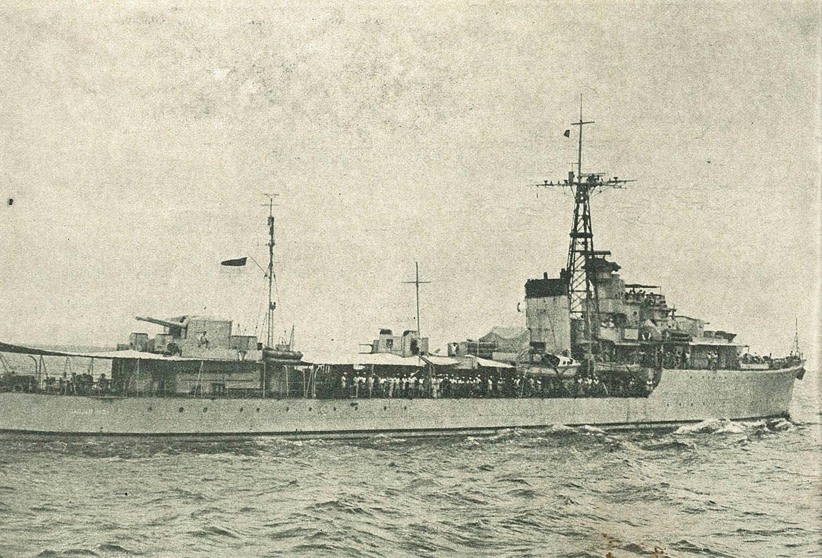 RI Gadjah Mada (former Hr.Ms. Tjerk Hiddes (1942) and HMS Nonpareil)